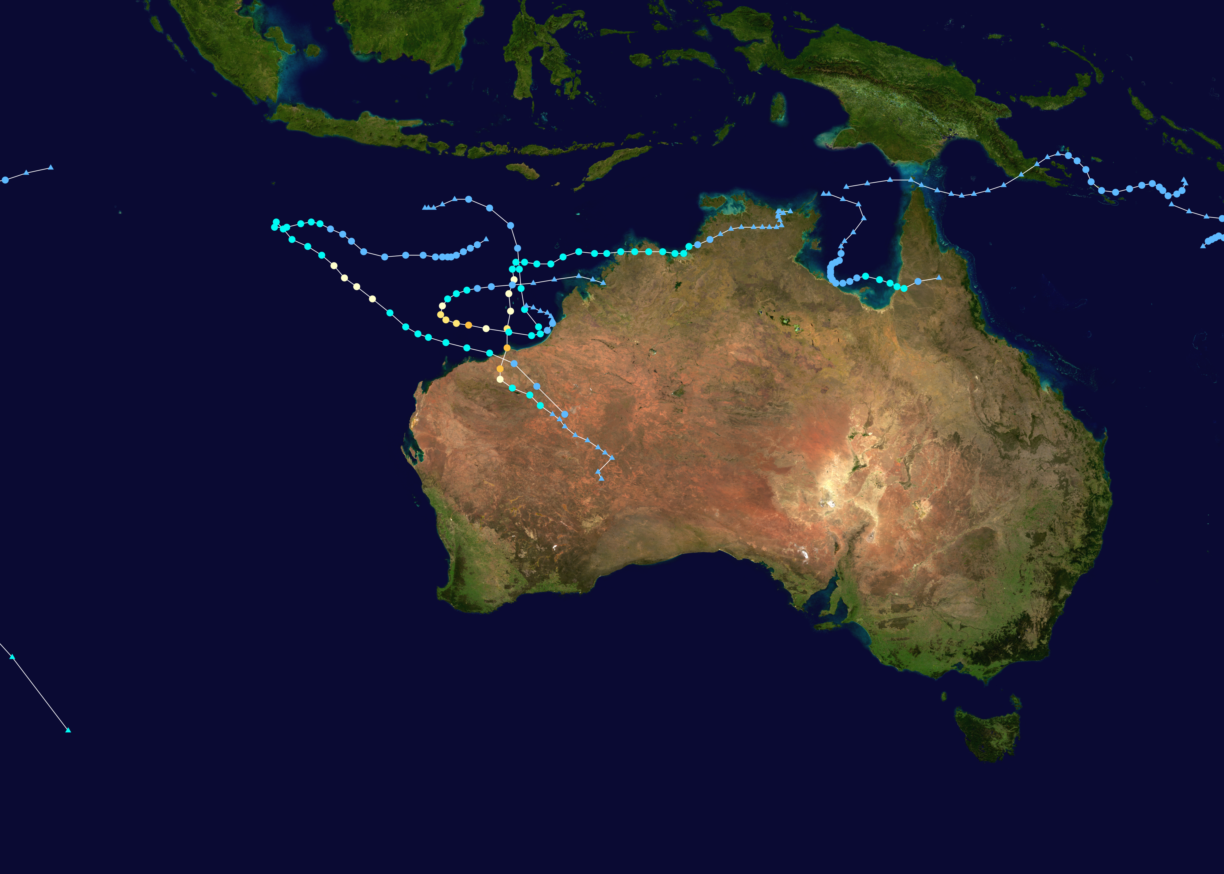 This map shows the tracks of all tropical cyclones in the 2006-07 Australian region cyclone season. The points show the location of each storm at 6-hour intervals. The colour represents the storm's maximum sustained wind speeds as classified in the Saffir-Simpson Hurricane Scale (see below), and the shape of the data points represent the type of the storm. Saffir–Simpson scale Tropical depression≤38 mph≤62 km/h Category 3111–129 mph178–208 km/h Tropical storm39–73 mph63–118 km/h Category 4130–156 mph209–251 km/h Category 174–95 mph119–153 km/h Category 5≥157 mph≥252 km/h Category 296–110 mph154–177 km/h Unknown Storm type Tropical cyclone Subtropical cyclone Extratropical cyclone / Remnant low / Tropical disturbance / Monsoon depression